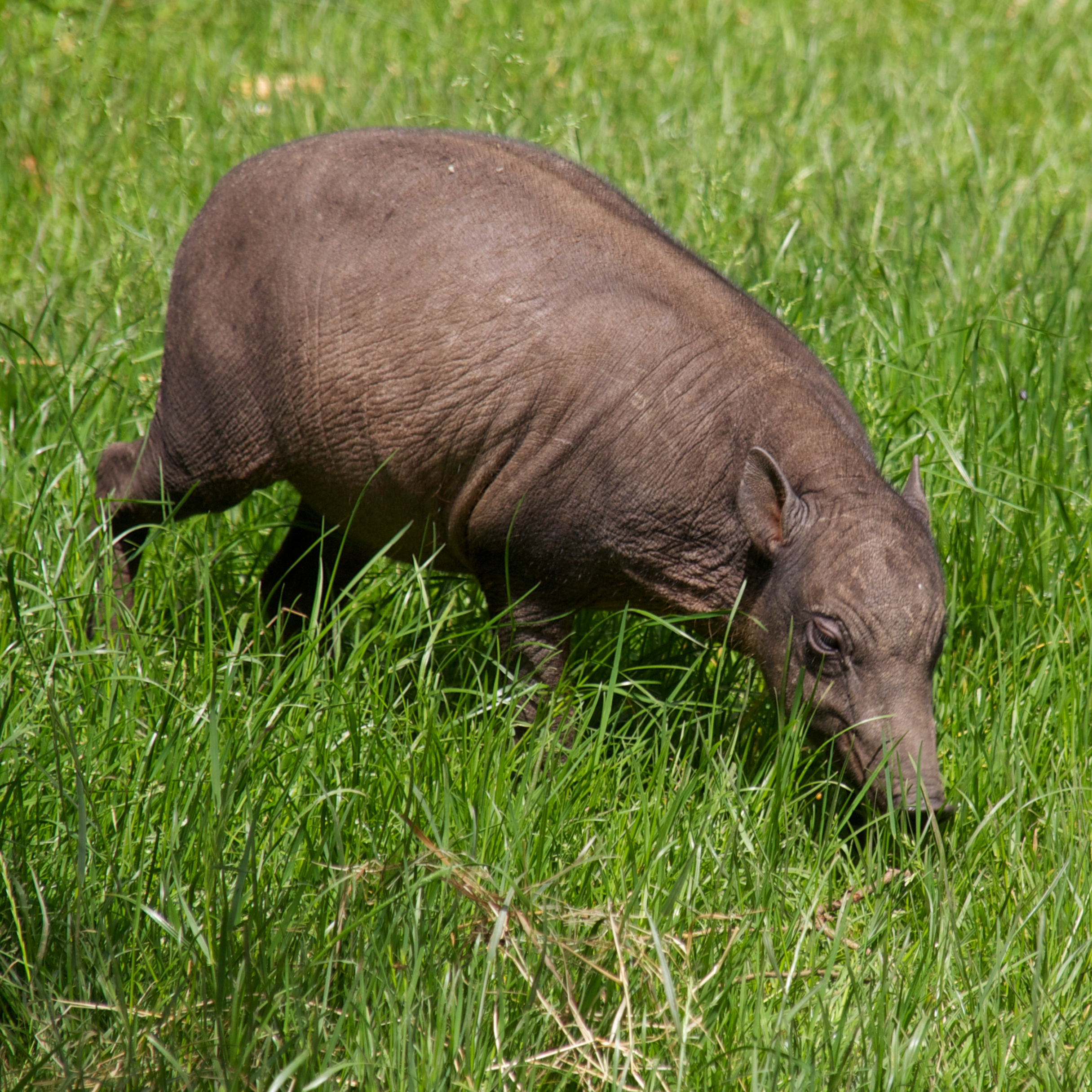 Babirusa. Babyrousa celebensis. At Chester Zoo